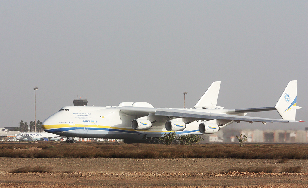 An225 take-off GVAC